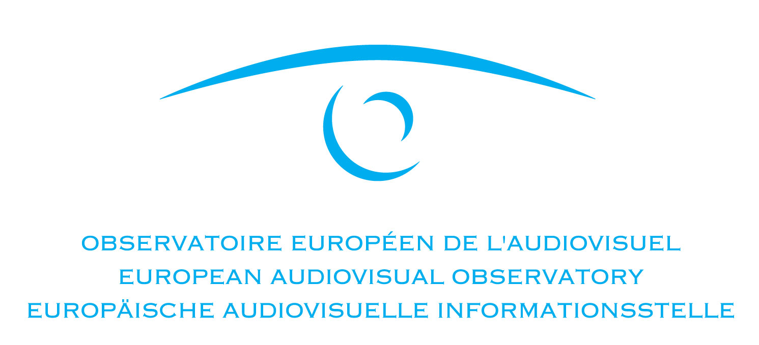 Logo of European Audiovisual Observatory.